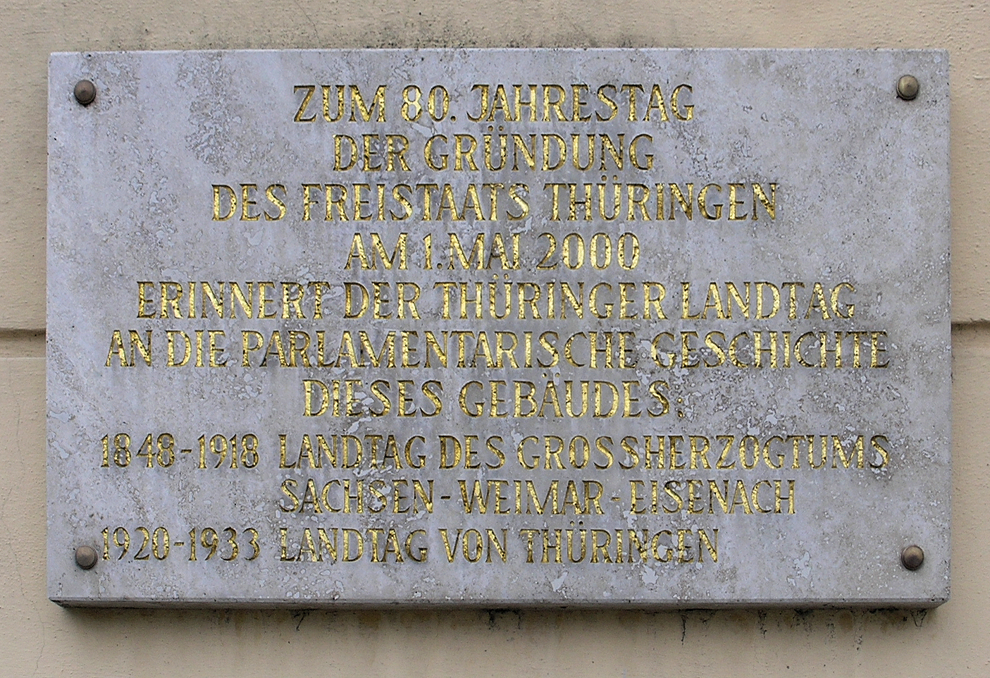 Memorial plaque, Thüringer Landtag (Weimarer Republik), Platz der Demokratie , Weimar, Germany Koordinate:52°58′42″N 11°19′53″E / 52.97833°N 11.33139°E